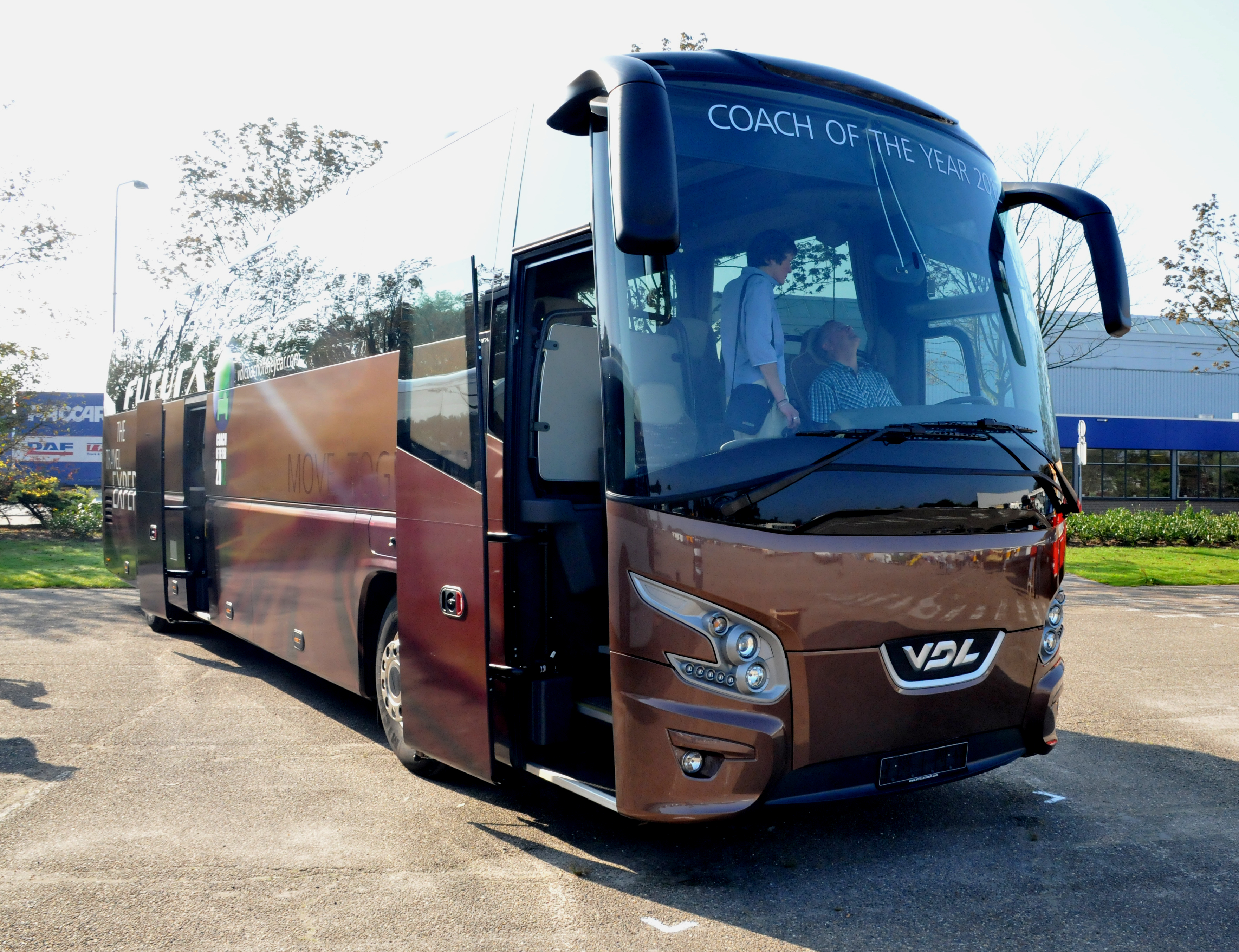 VDL Futura FHD2-129 coach in DAF Bus Museumdagen in Eindhoven, Netherlands. Built 2011. International Coach of the Year 2012.